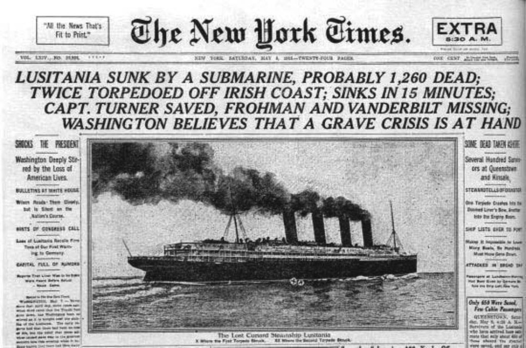 Sinking of the Lusitania at NYT title, May 8th, 1915